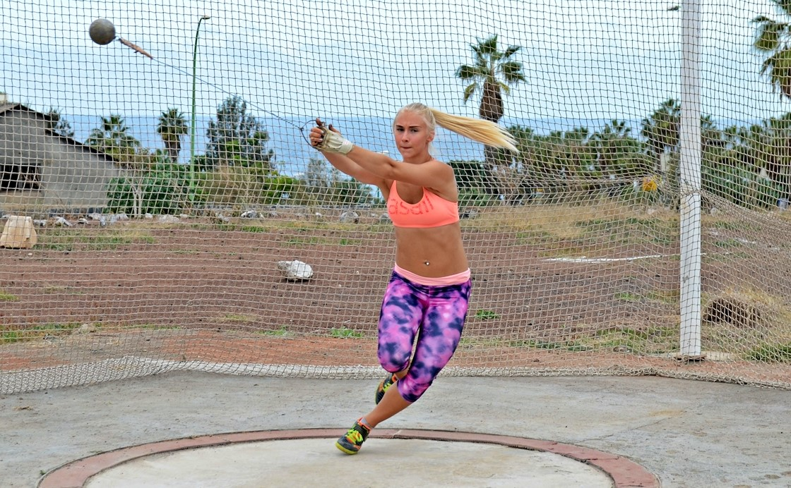 Anna Maria Orel, 2016